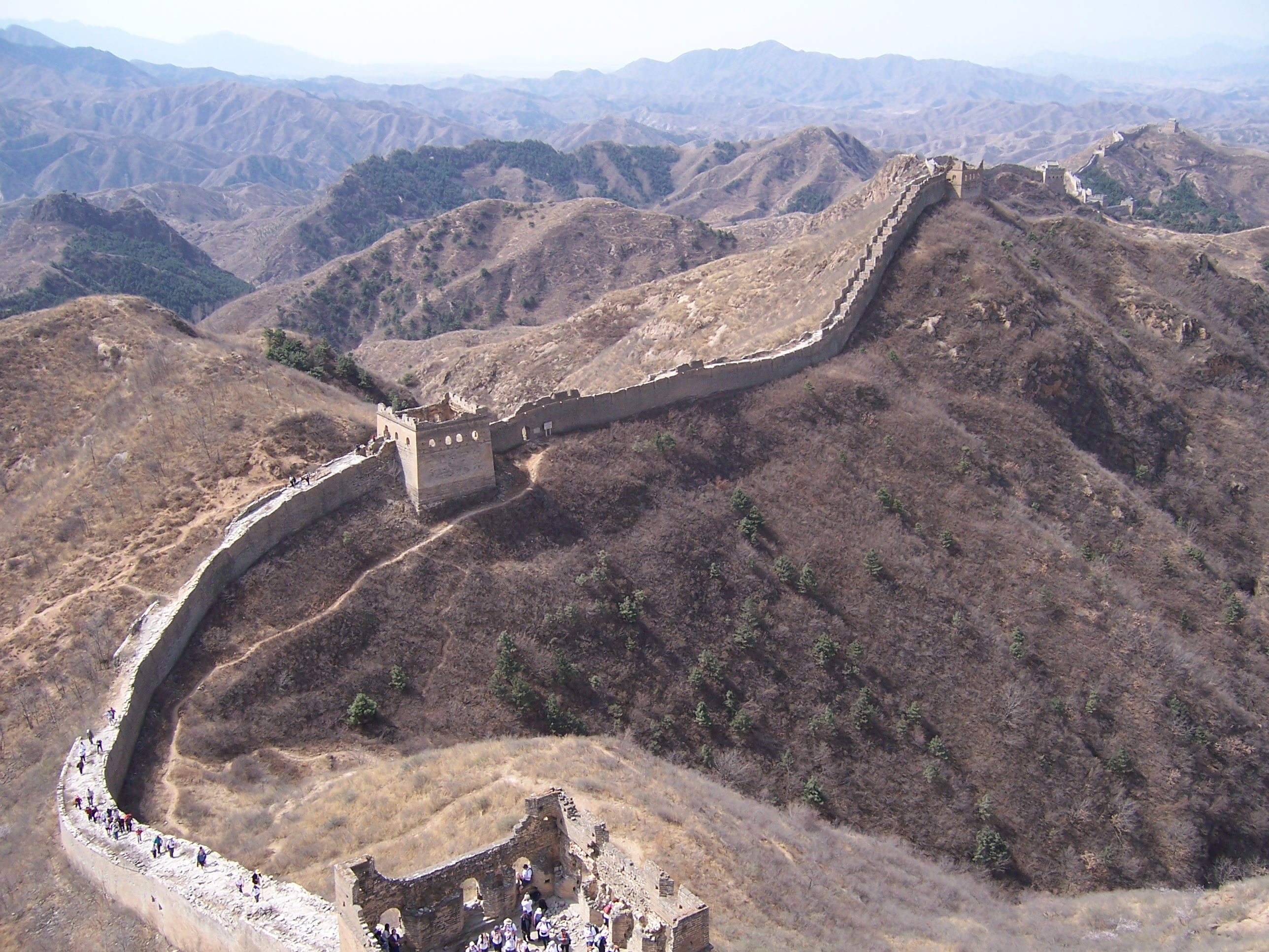 There are few constructions grander and more amazing than the Great Wall. This is a section north of Beijing. We hiked 10km along its length, being picked up on the other end.